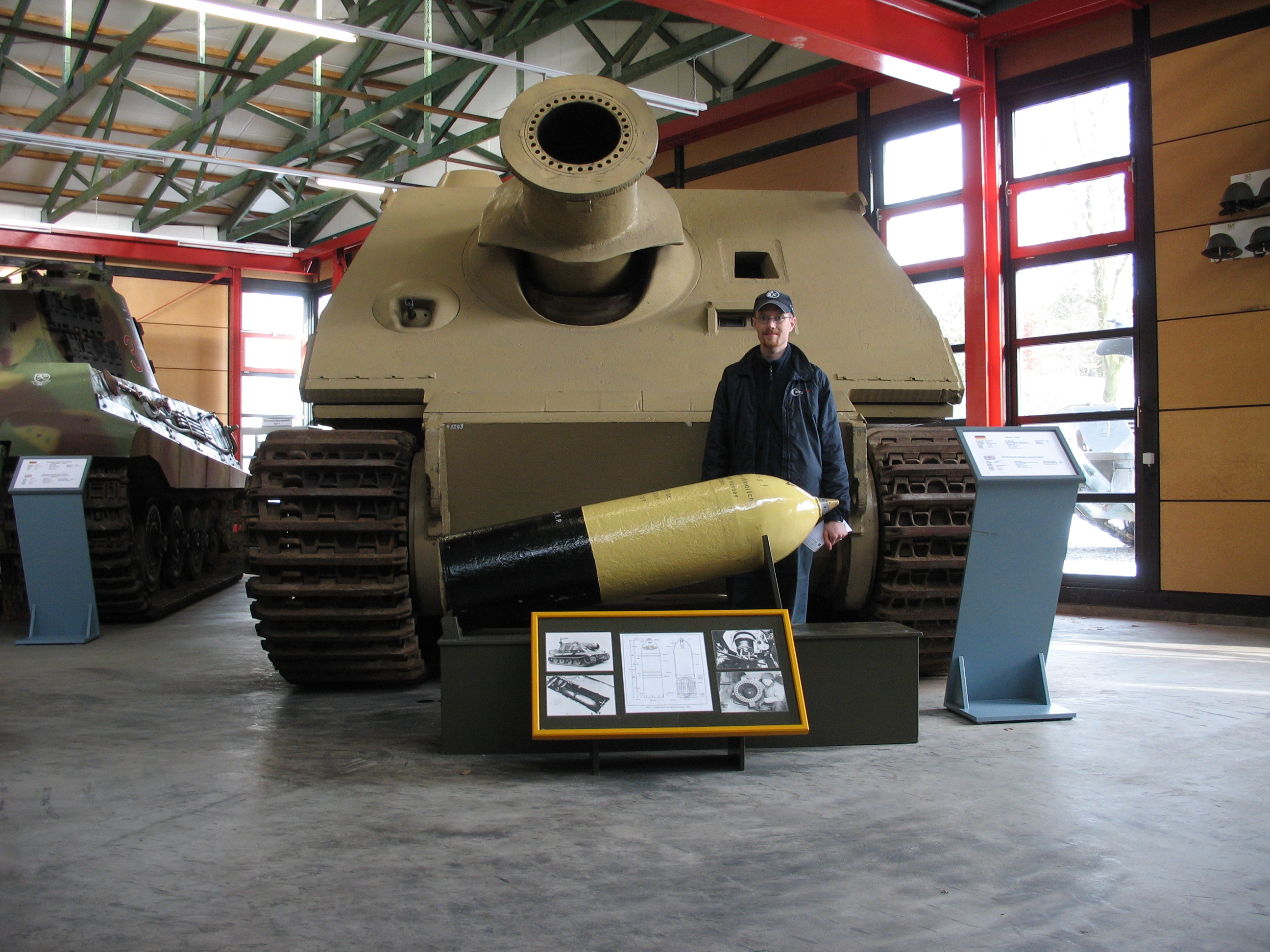 Photo of Sturmtiger.